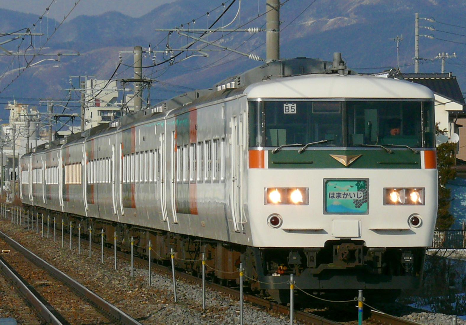 JR East 185 series EMU on a Hamakaiji limited express service at Hirata Station on the Shinonoi Line